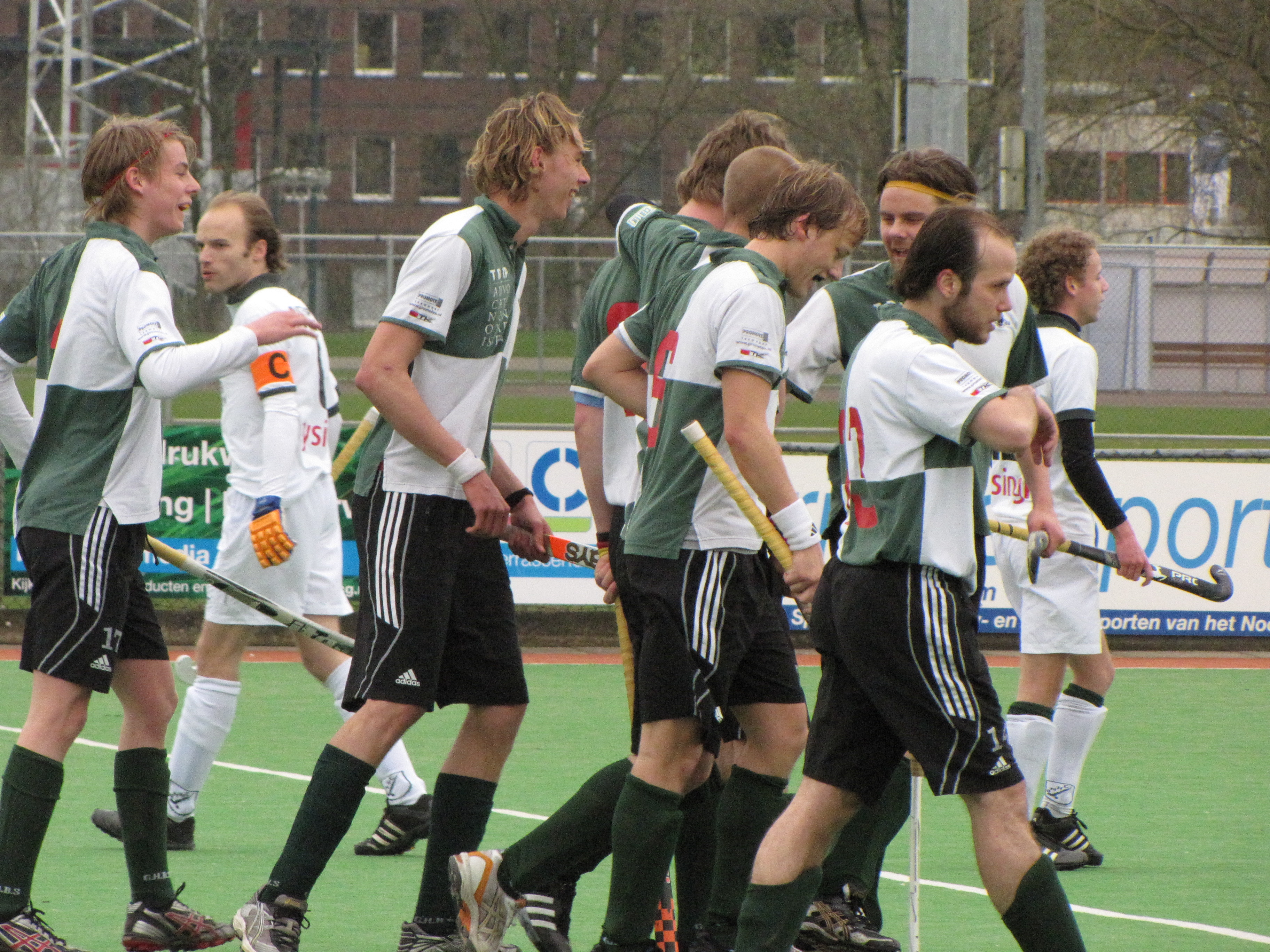 GHBS Groningen